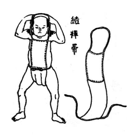 A Japanese Edo period wood block print of a samurai putting on a fundoshi (loincloth).